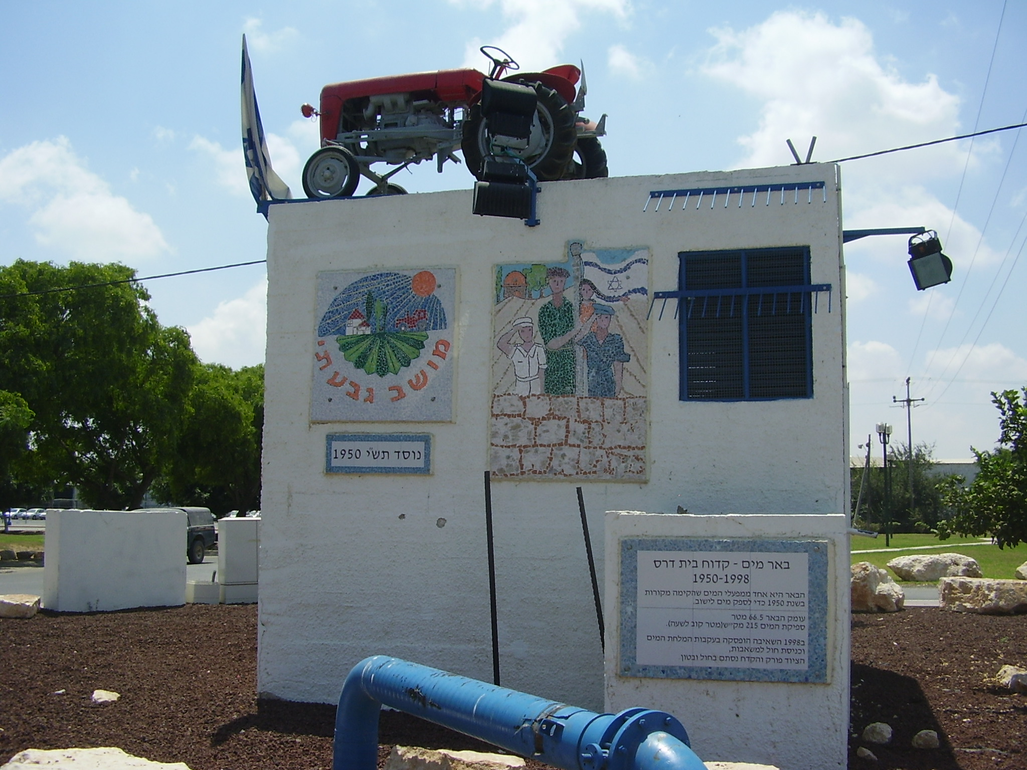 Giv\'ati Village